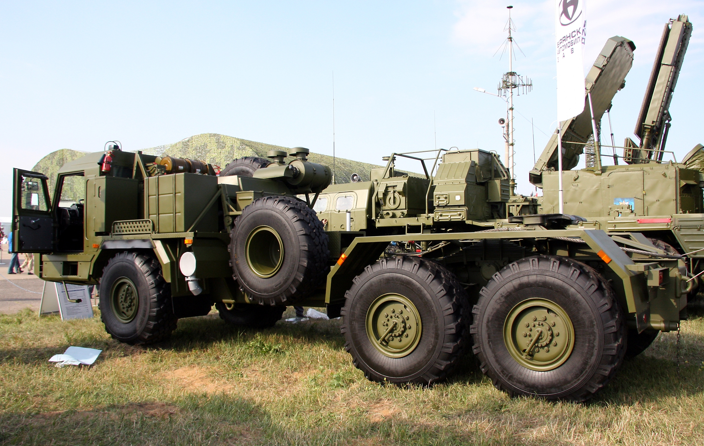 BAZ-6402 truck.